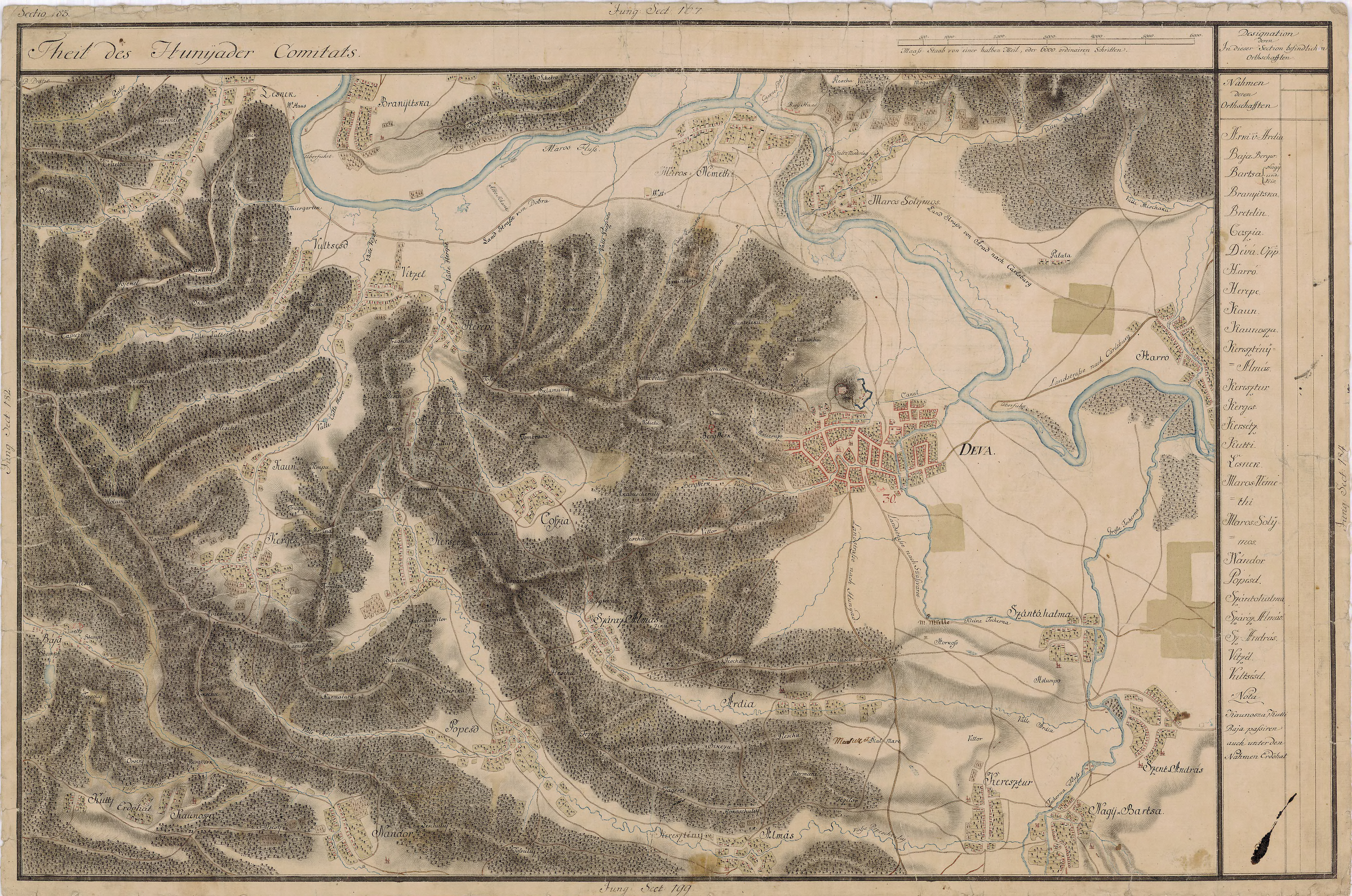 Grand Duchy of Transylvania, 1769-1773. Josephinische Landaufnahme pg.183